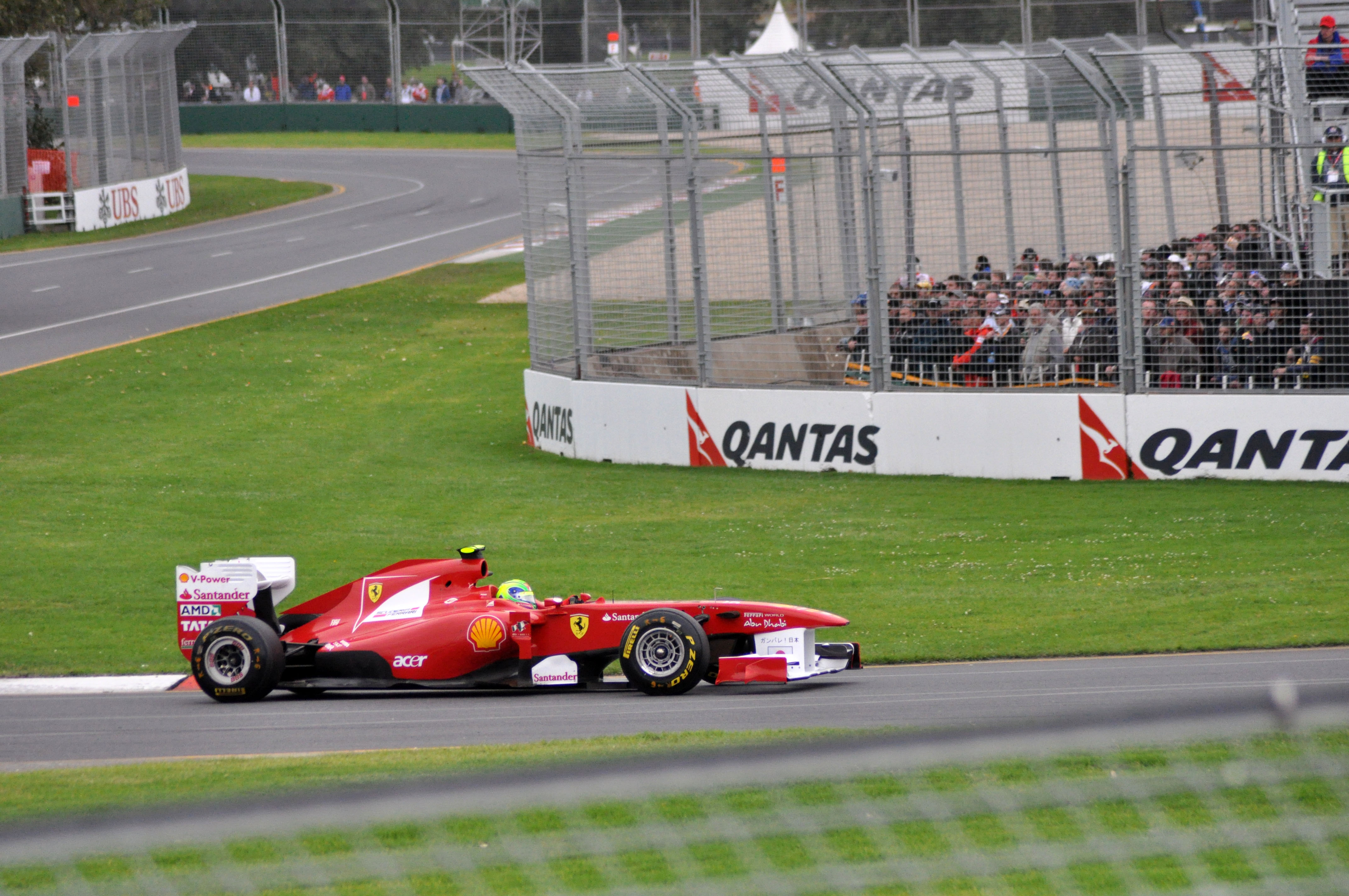 2011 Australian Grand Prix. Felipe Massa driving his Ferrari car.